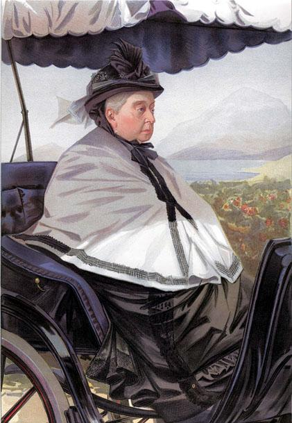 Caricature of Queen Victoria : Her Majesty The Queen-Empress. Caption read "A Cimiez (Promenade Matinale)". See also monochrome version published on Queen Victoria's death, 31 March 1901 : File:Queen Victoria Vanity Fair 1901-01-31.jpg.